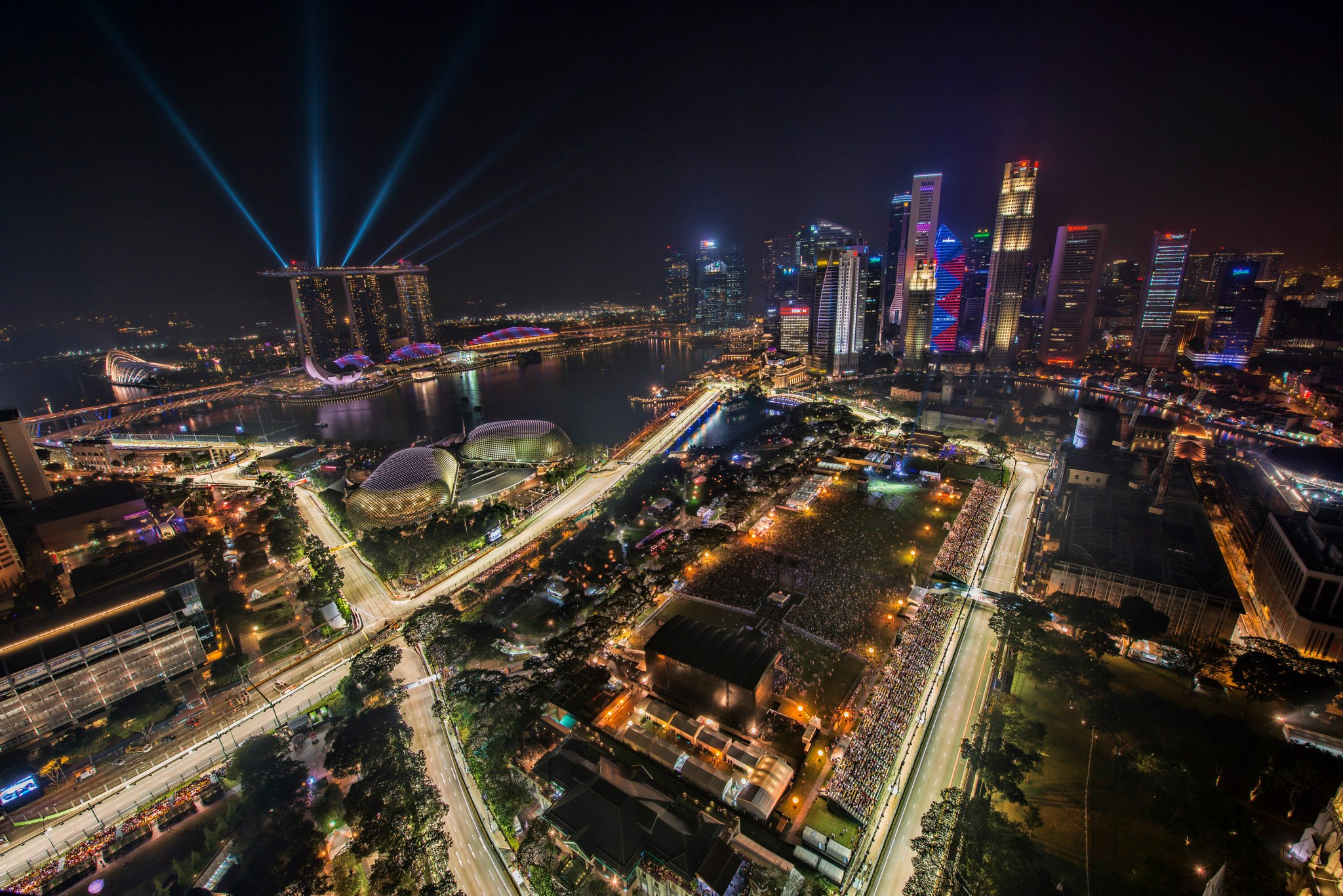 singapore formula one f1 grand prix night race marina bay street circuit singapore flyer marina bay sands city skyline padang esplanade